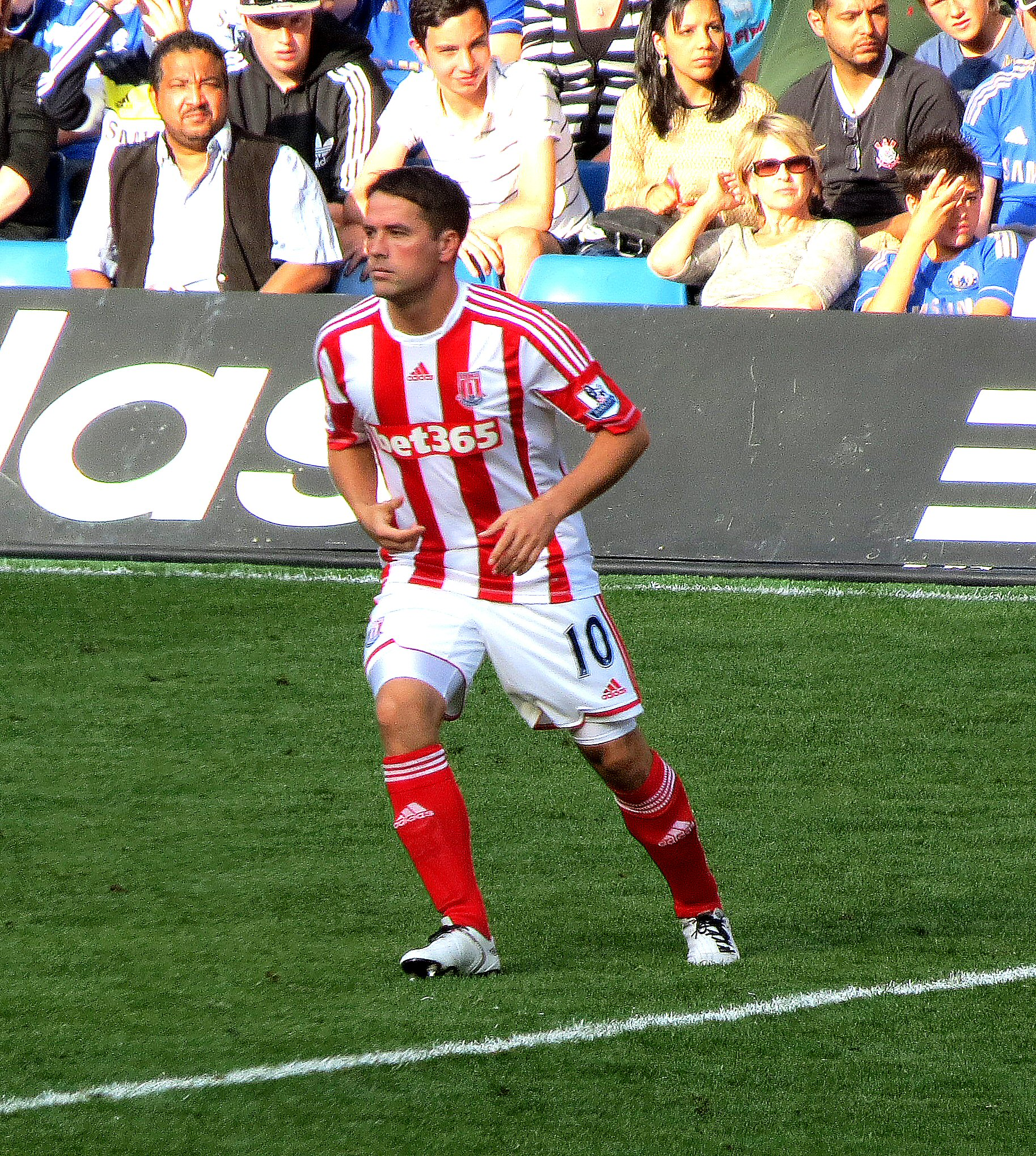 Michael Owen playing for Stoke City at Chelsea, September 2012